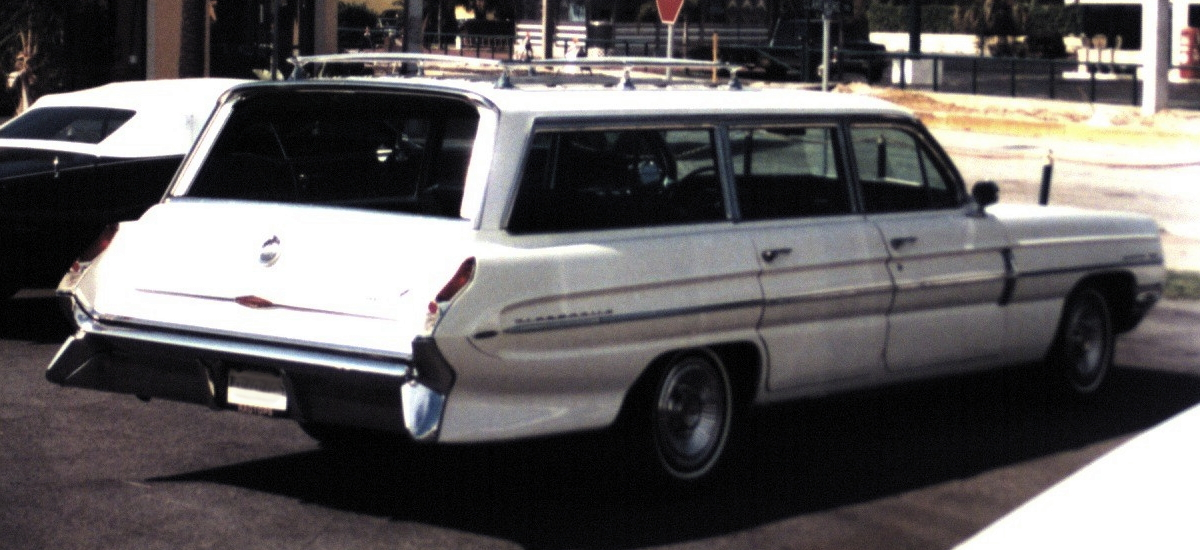 1962 Oldsmobile 88 Fiesta station wagon. Picture taken in West Palm Beach, Florida. Unlike the rest of the 88 range, the '62 Fiesta mostly retained the rear design of the 1961.